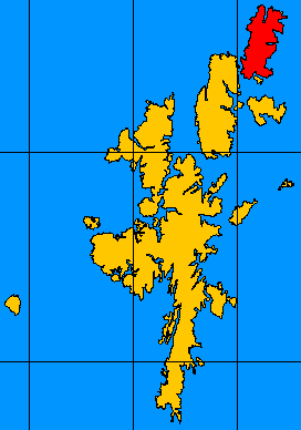 Adaption of Image:Shetland.png highlighting Unst. Created with the Online Map Creation tool.